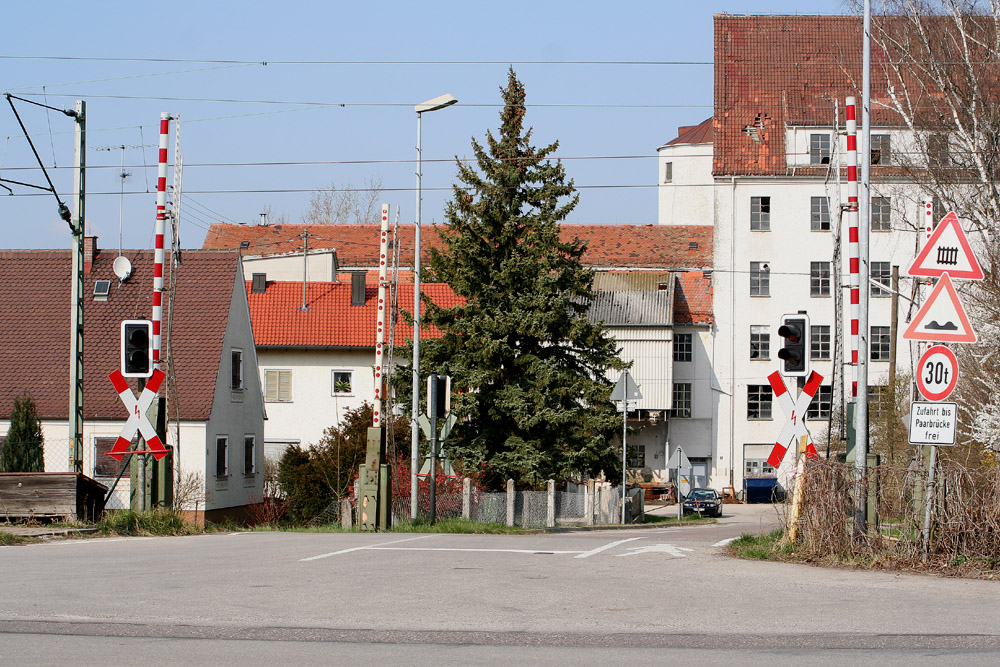 A level crossing on the Munich-Ingolstadt railway in Reichertshofen. This part of the line has not yet been upgraded for high-speed travel.